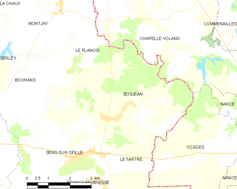 Map of French municipality